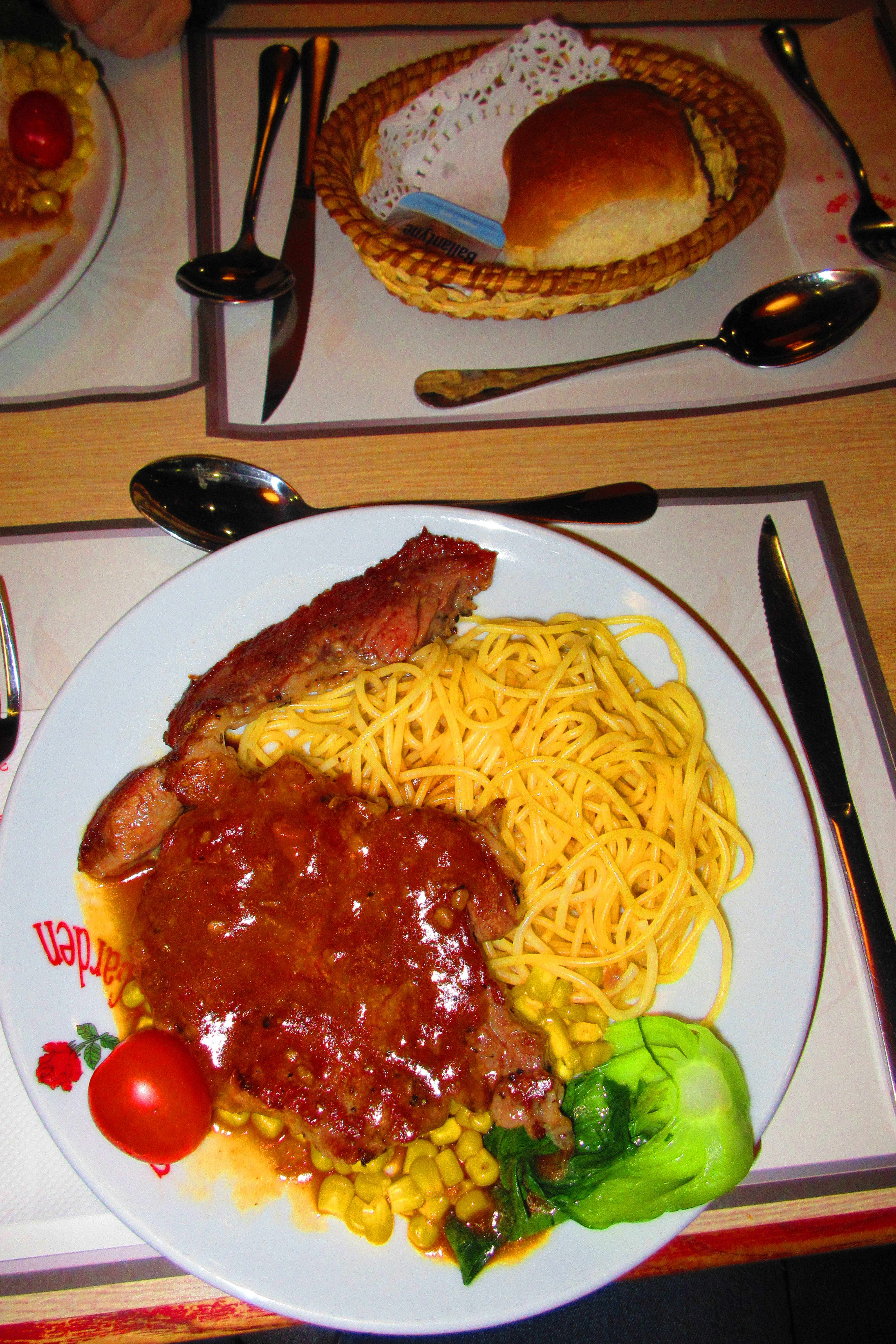 HK Mongkok WLB Bank Centre 花園餐廳 Sweetheart Garden food beef steak Italy noodle Spaghetti in Feb 2017